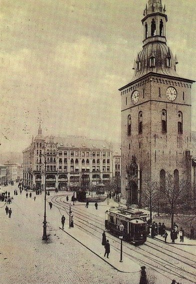 Kristiania Kommunale Sporveie tram at Stortorvet